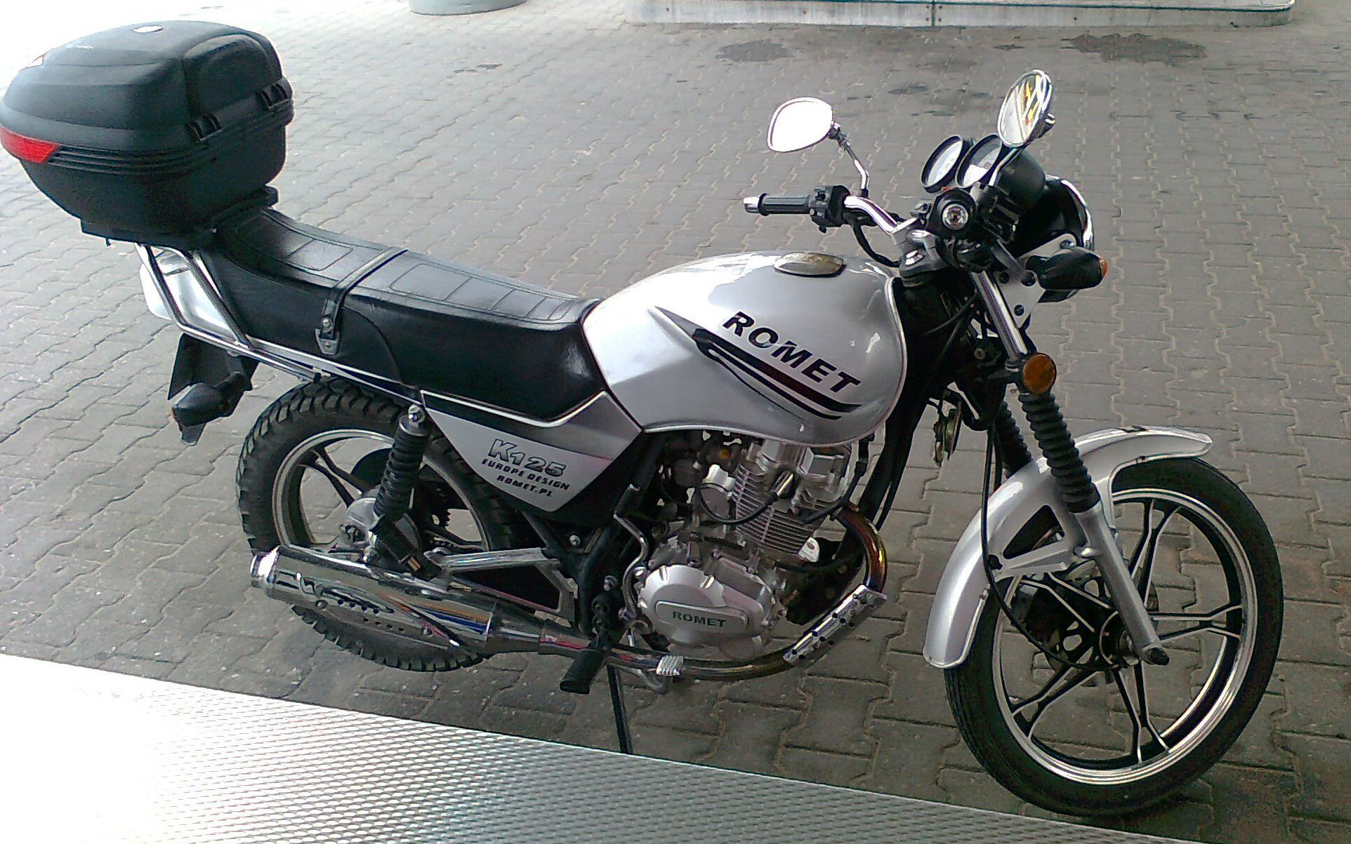 Romet K-125 motorcycle.